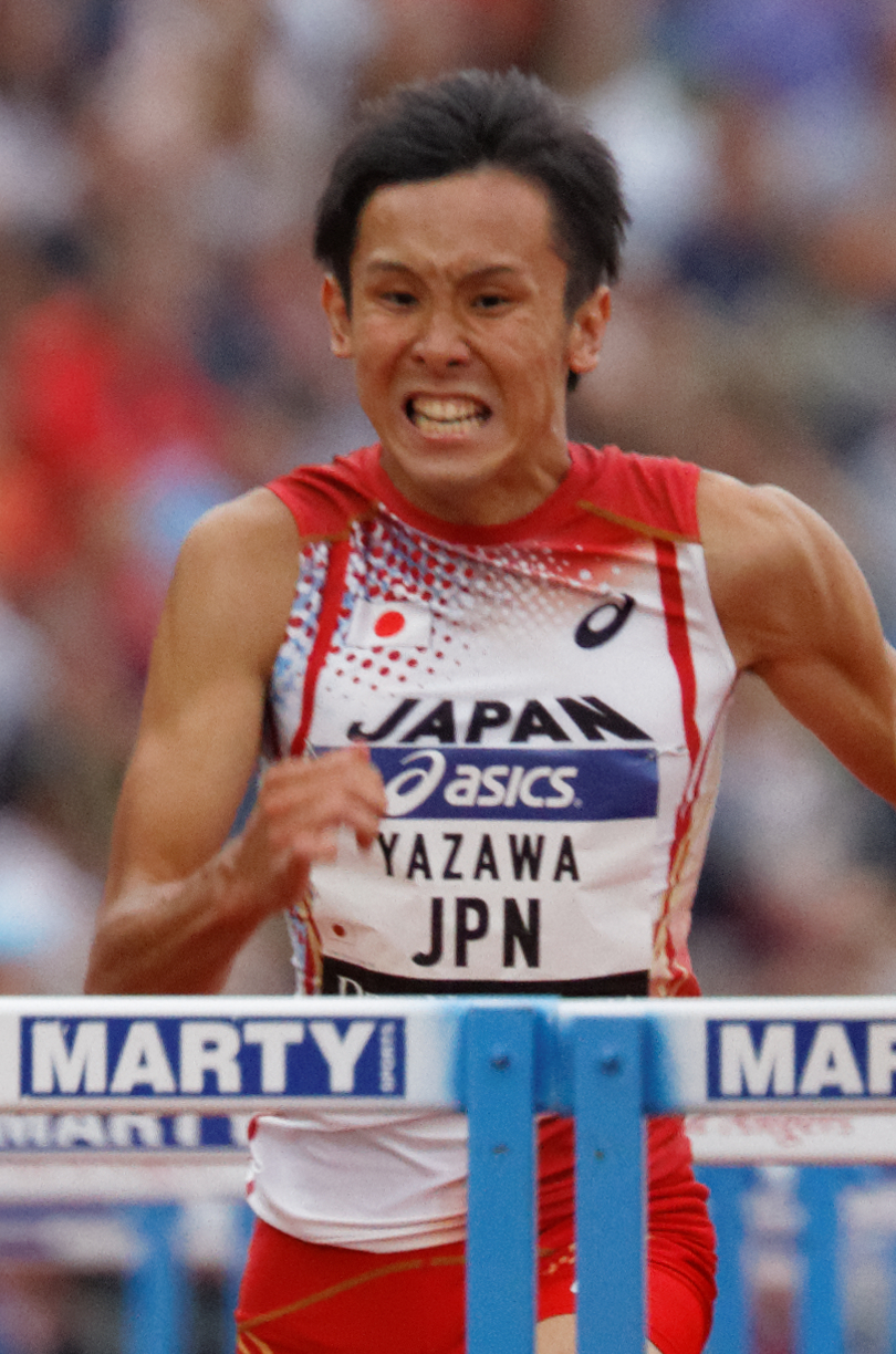 DécaNation 2014. 110m hurdles.